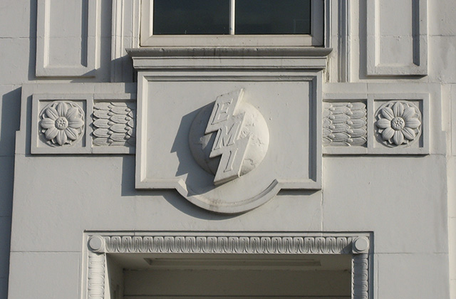 EMI logo on HQ building, Hayes. The Electric & Musical Industries (EMI) logo above the entrance to the former headquarters building (1497197) in Hayes.